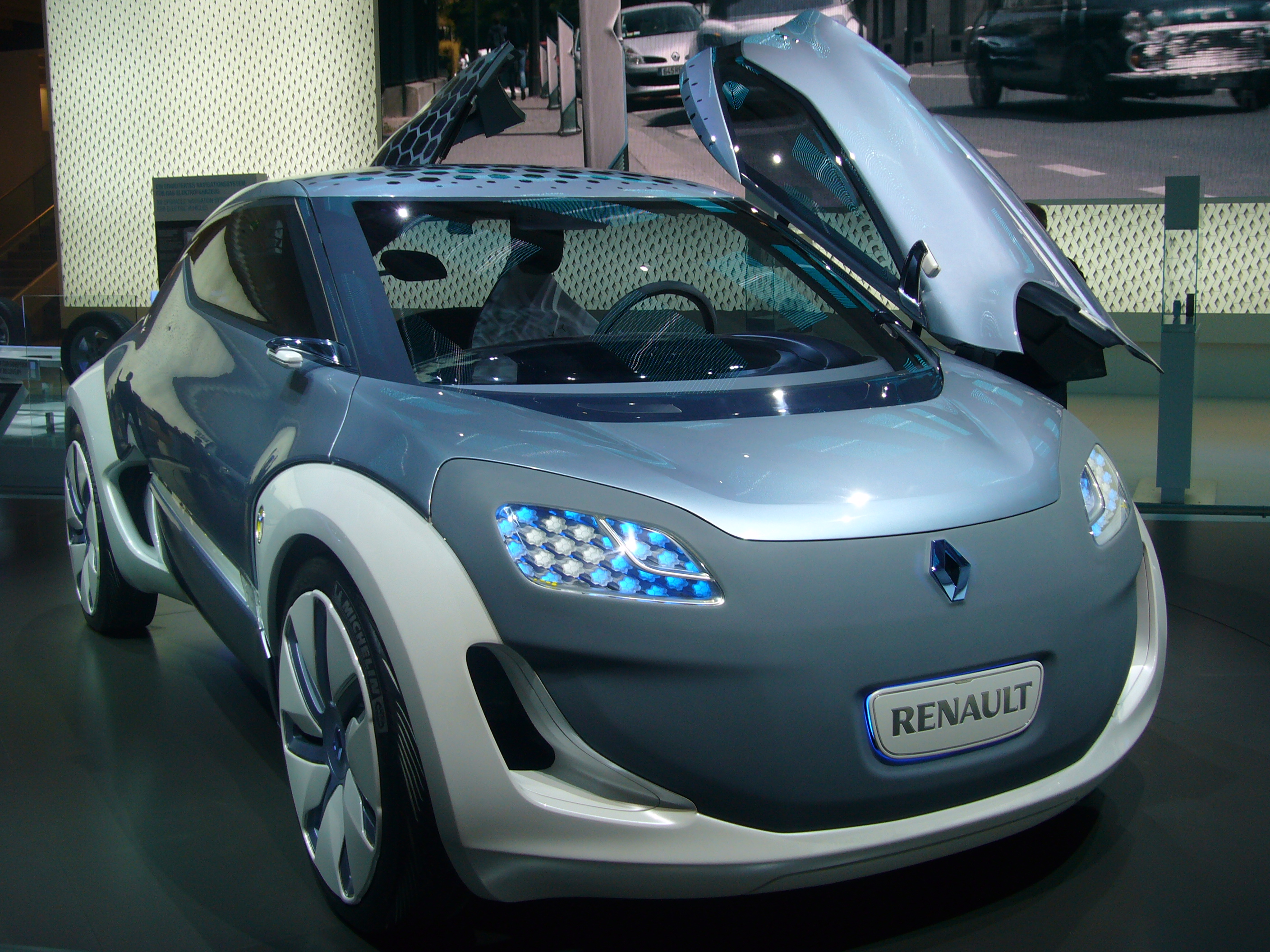 Renault Zoe Z.E. Concept at IAA Frankfurt 2009